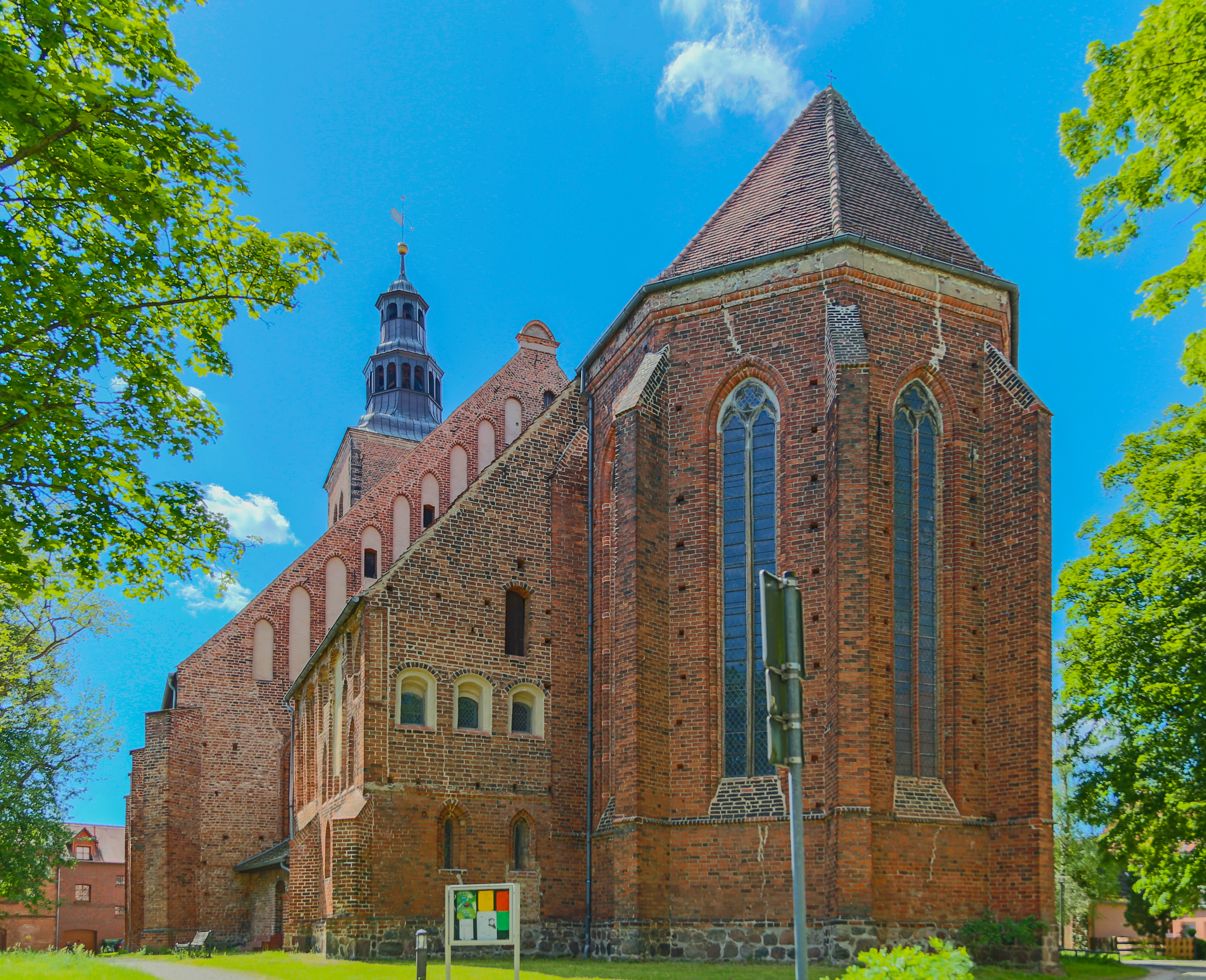 The Protestant St Mary Church (Marienkirche) in Gardelegen, Altmarkkreis Salzwedel, Saxony-Anhalt, Germany. The church is a listed cultural heritage monument.